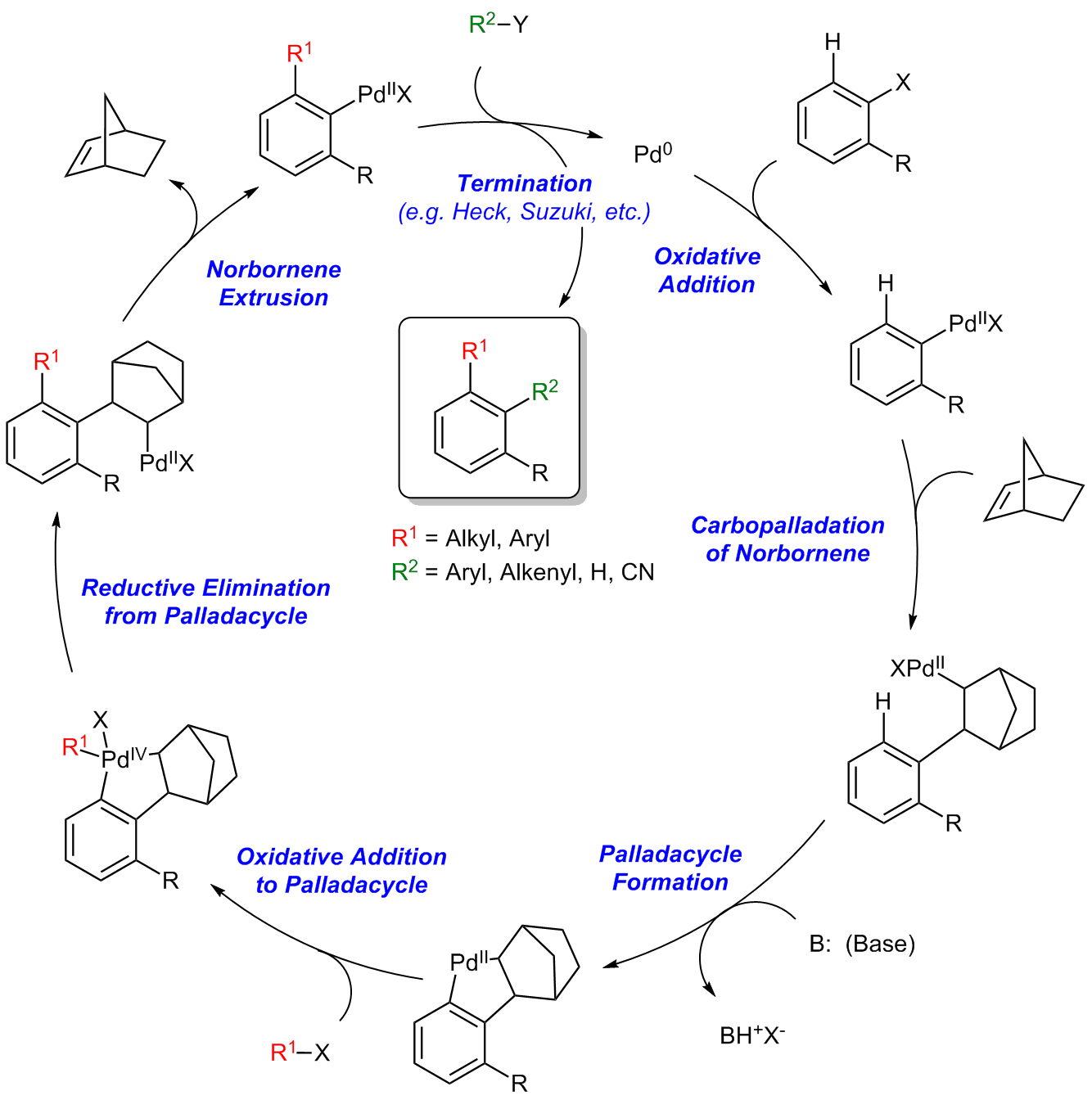 Catalytic cycle of Catellani reaction. Ligands are omitted for clarity. See Top Curr Chem (2010) 292: 1–33. DOI 10.1007/128_2009_13.